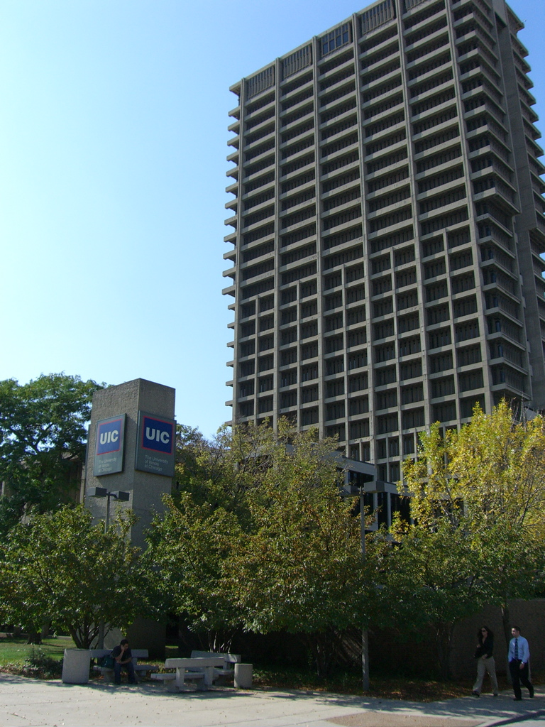 University of Illinois at Chicago - University Hall at East Campus (taken October 2005 by Onar Vikingstad) Officially ranked as the worlds ugliest building.